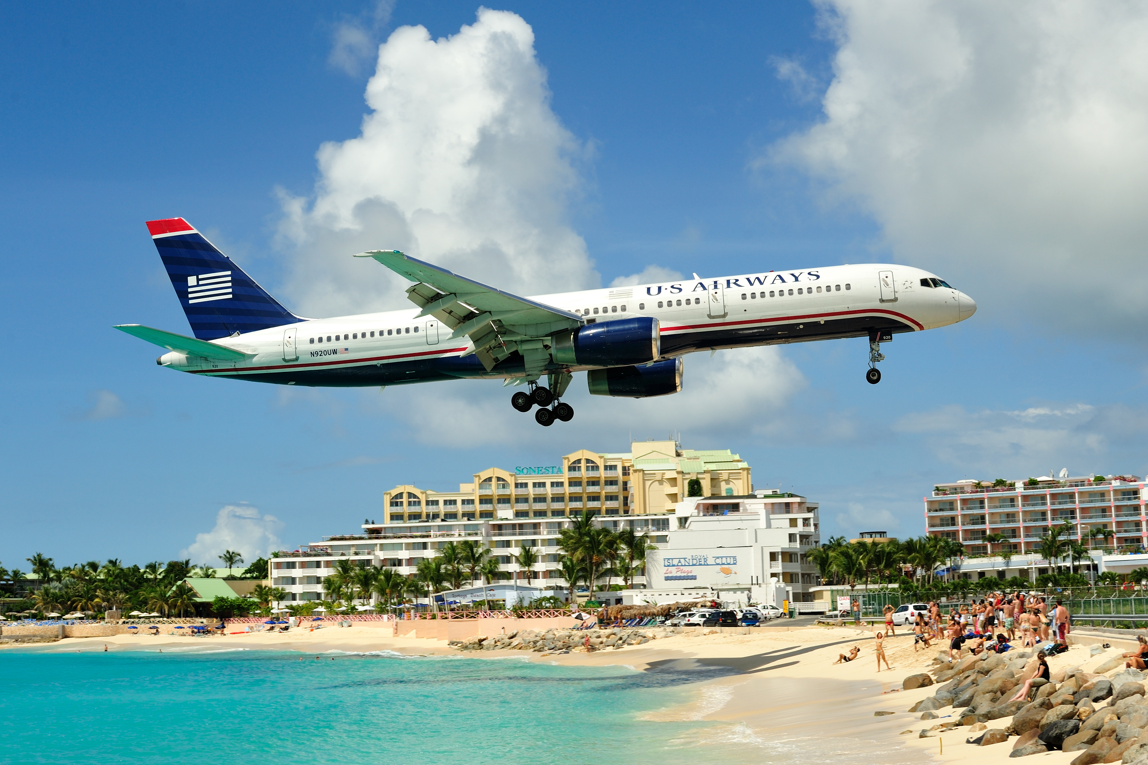 US Airways Boeing 757 on final approach to Princess Juliana International Airport (SXM) in Sint Maarten, Netherlands Antilles.